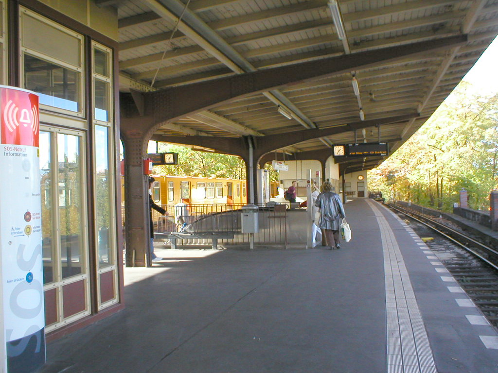 U-Bahn station Ruhleben of the Berlin U-Bahn, Germany